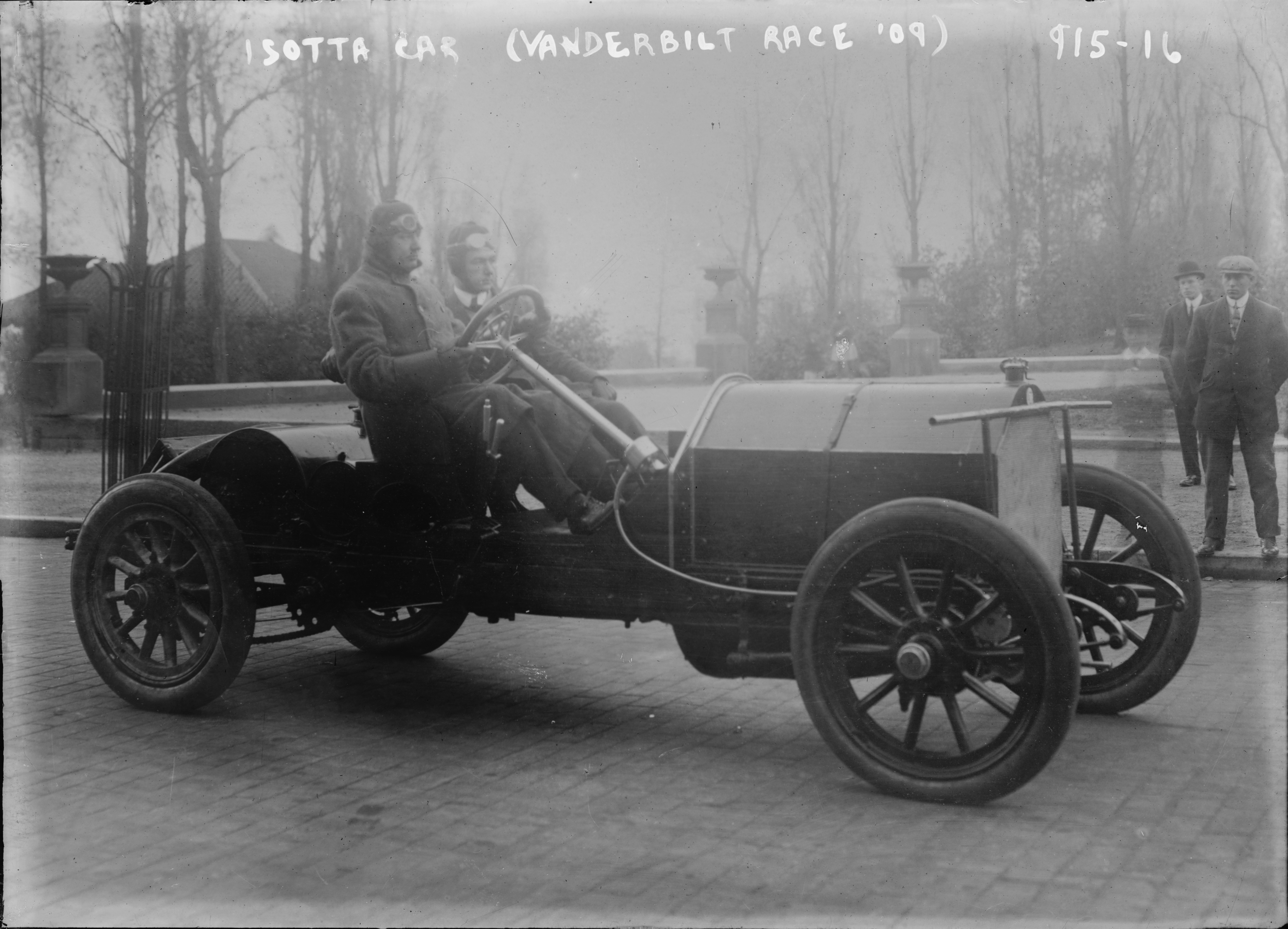 Isotta Car at the 1909 Vanderbilt Cup race